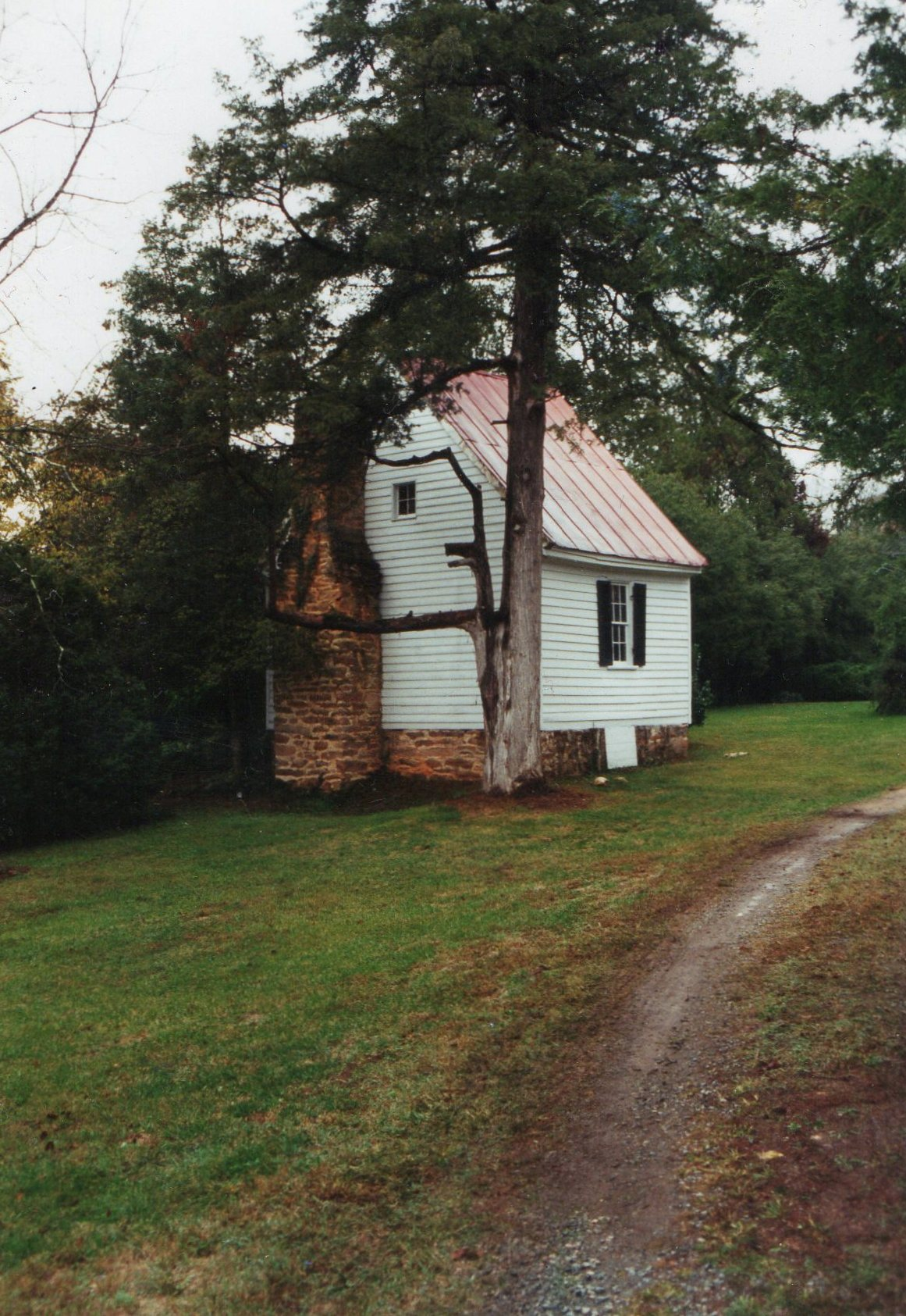 Black Walnut (Clover, Virginia)